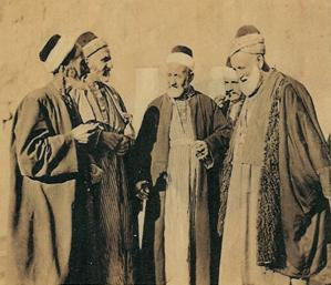 Men from Mardin, Ottoman Empire, late 1800s or early 1900s.